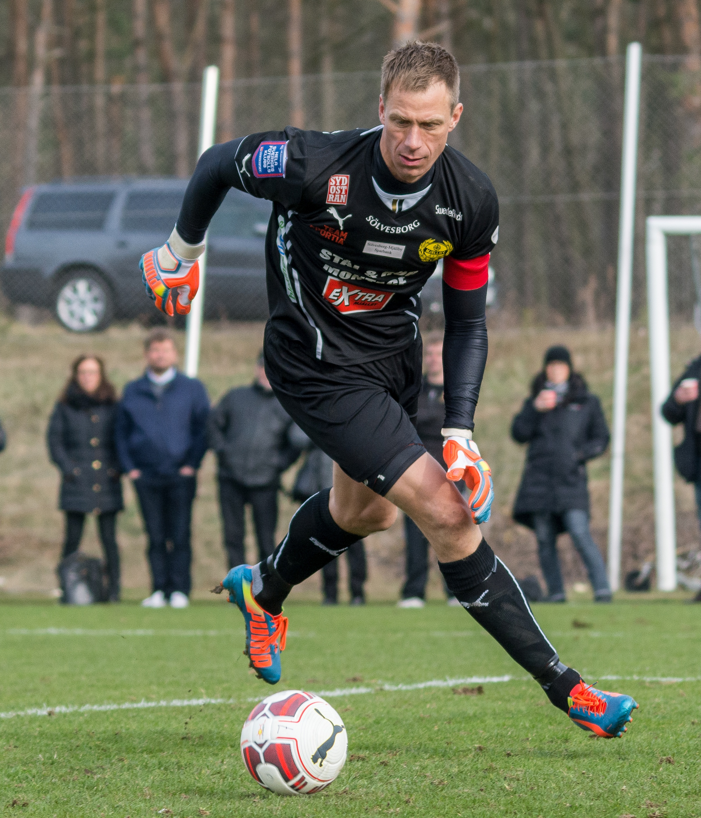 Swedish goalkeeper Mattias Asper playing a pre-season friendly for his Mjällby AIF against Östers IF in Match 2014.